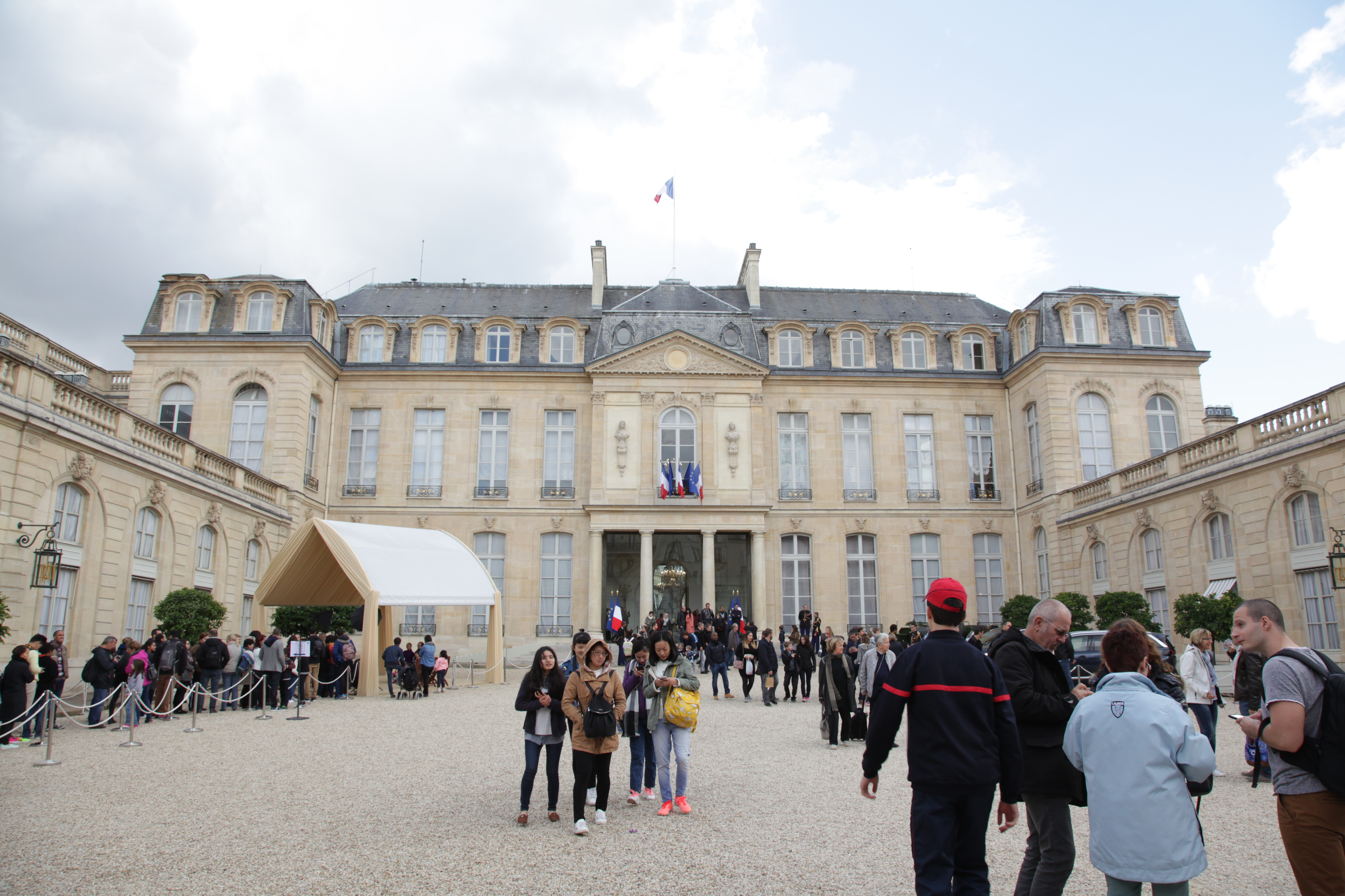 55, Rue du Faubourg Saint-Honoré, 75008, Paris